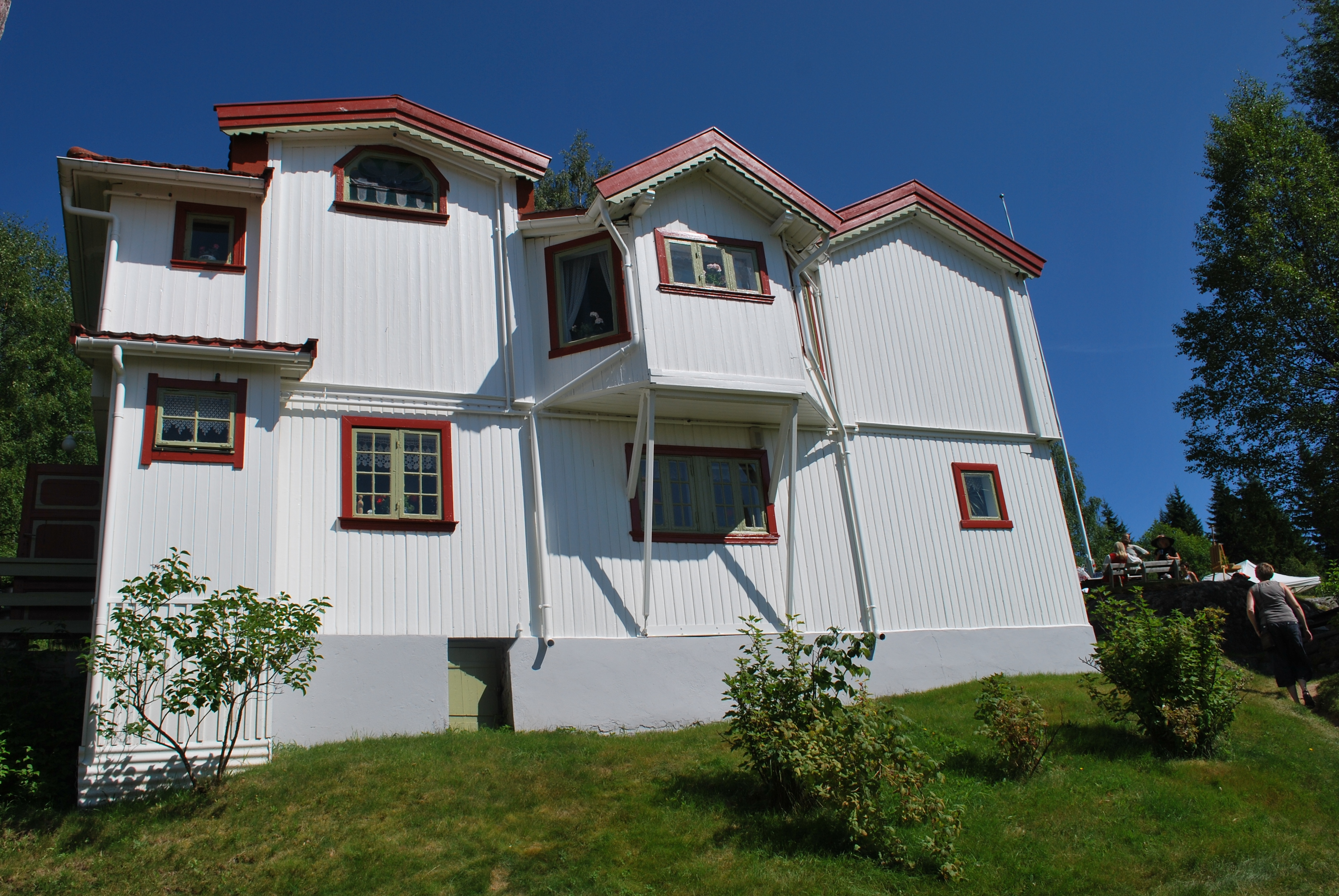 Hagan, home of Norwegian painter Christian Skredsvig, Eggedal